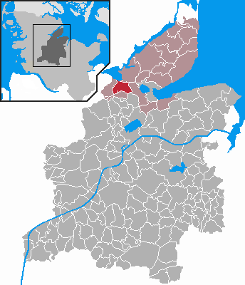 Locator maps of municipalities in Schleswig-Holstein - District Rendsburg-Eckernförde